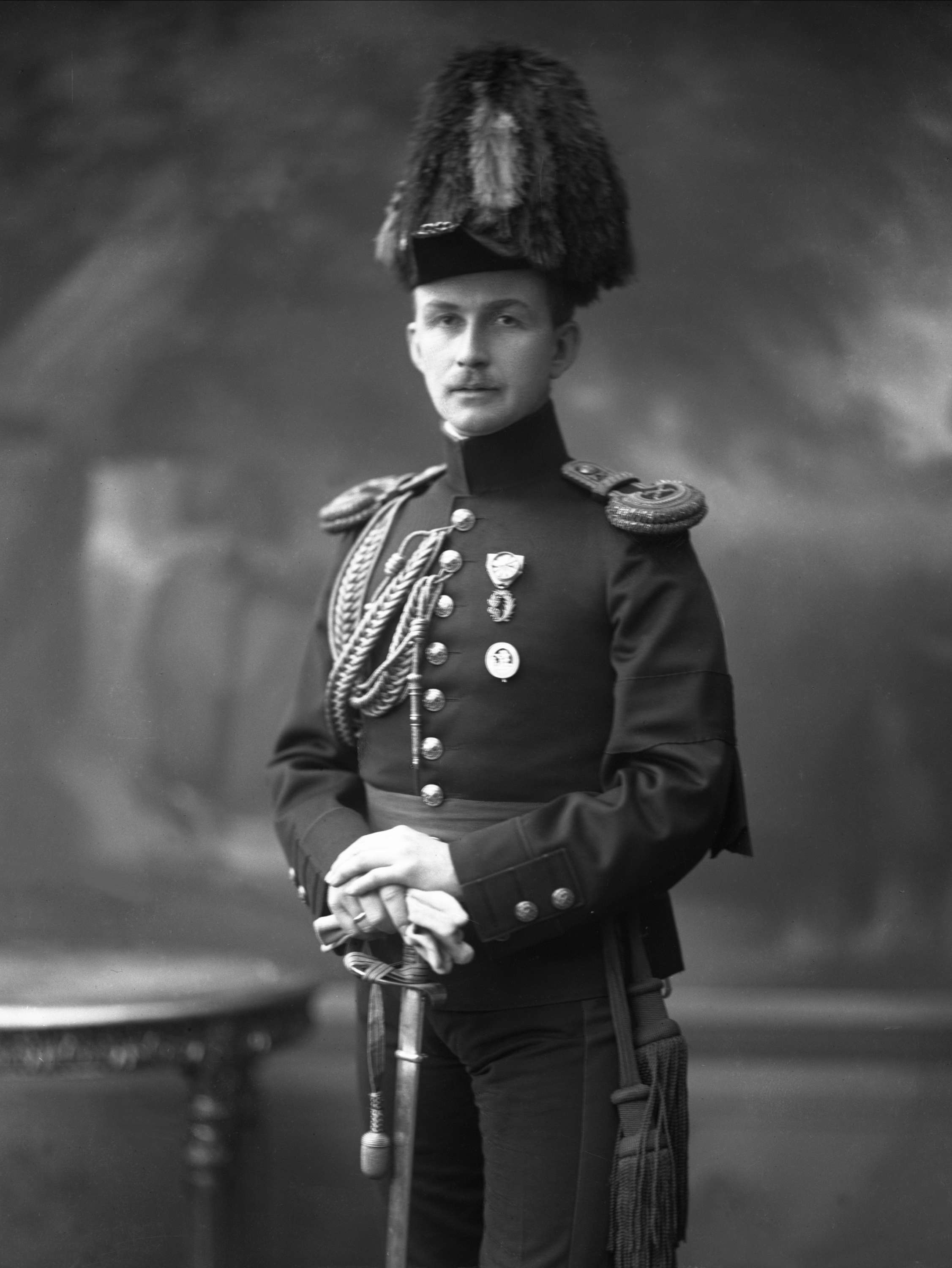 Christopher Fougner (1876-1950) in uniform for Generalstaben, 1909 - looking at viewer